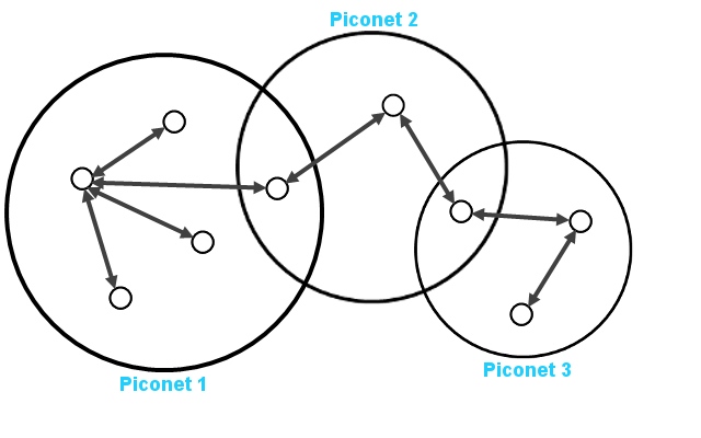 Bluetooth Classic Scatternet Topology